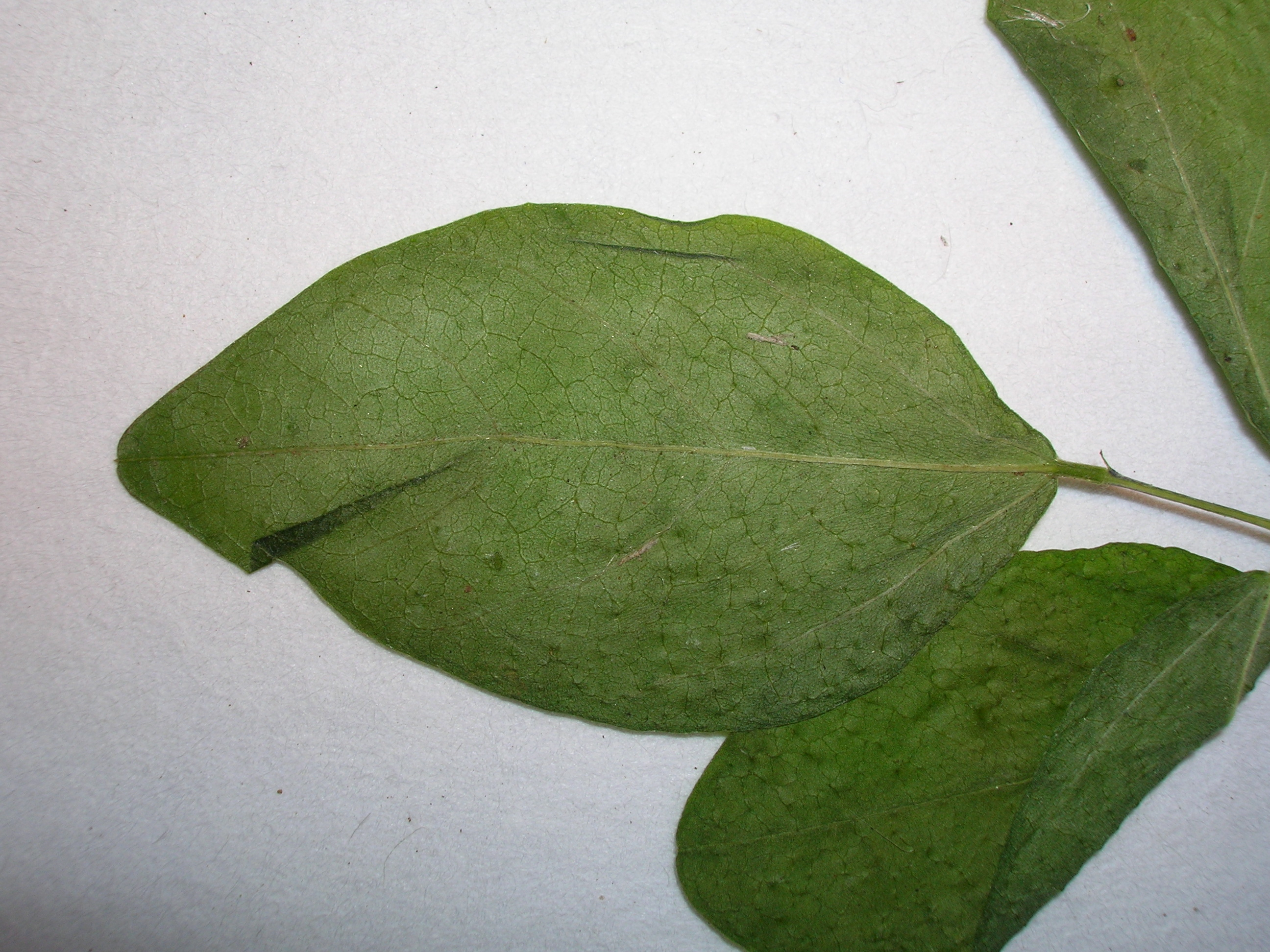 Macroptilium lathyroides (voucher 060405 25). Location: Maui, Molokini